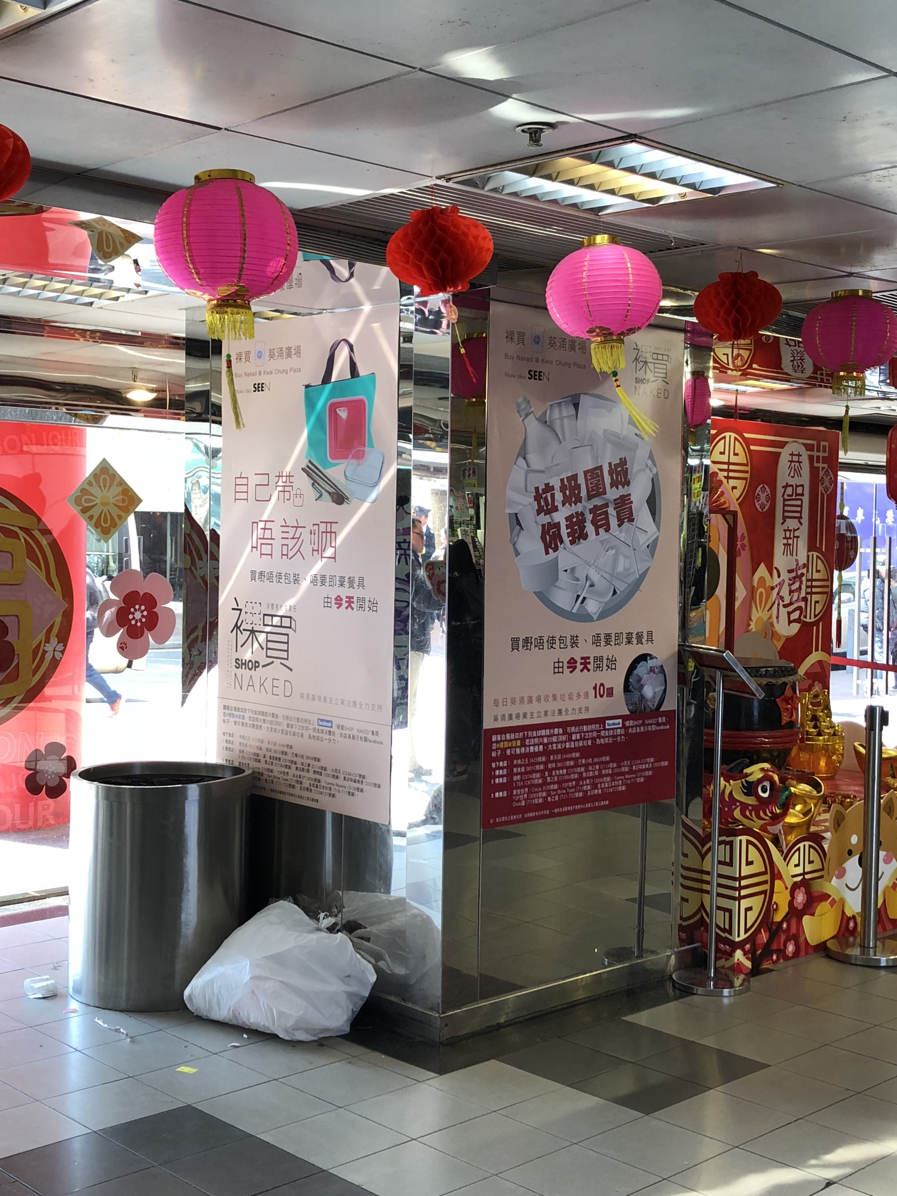 Promotional poster in Kwai Chung Plaza